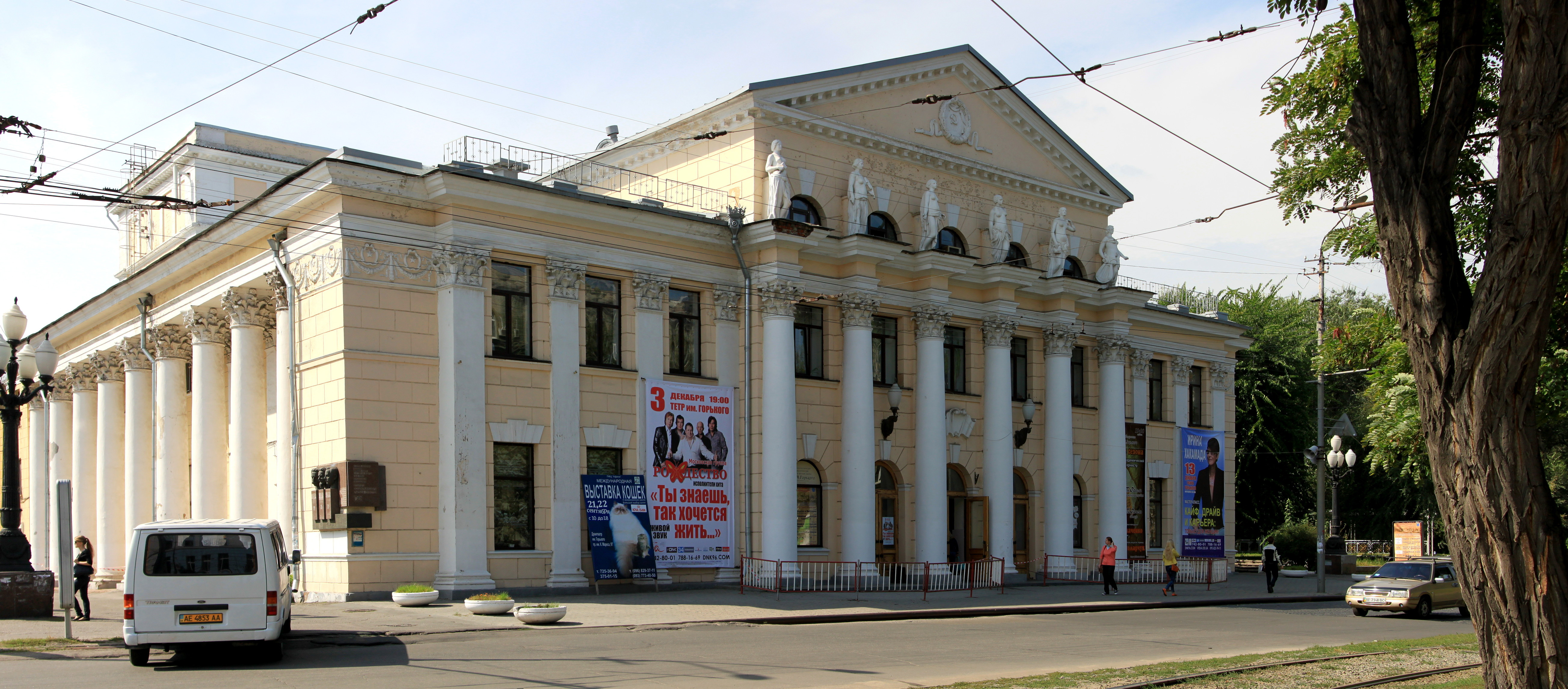 Dnipropetrovsk's 'Gorky' Russian Theatre, Dnipropetrovsk, Ukraine